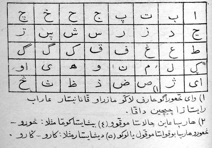 Lak arabic alphabet from 1925 book